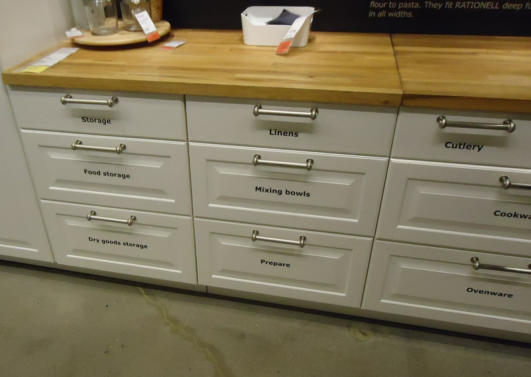 Labeled drawers as part of a kitchen design.